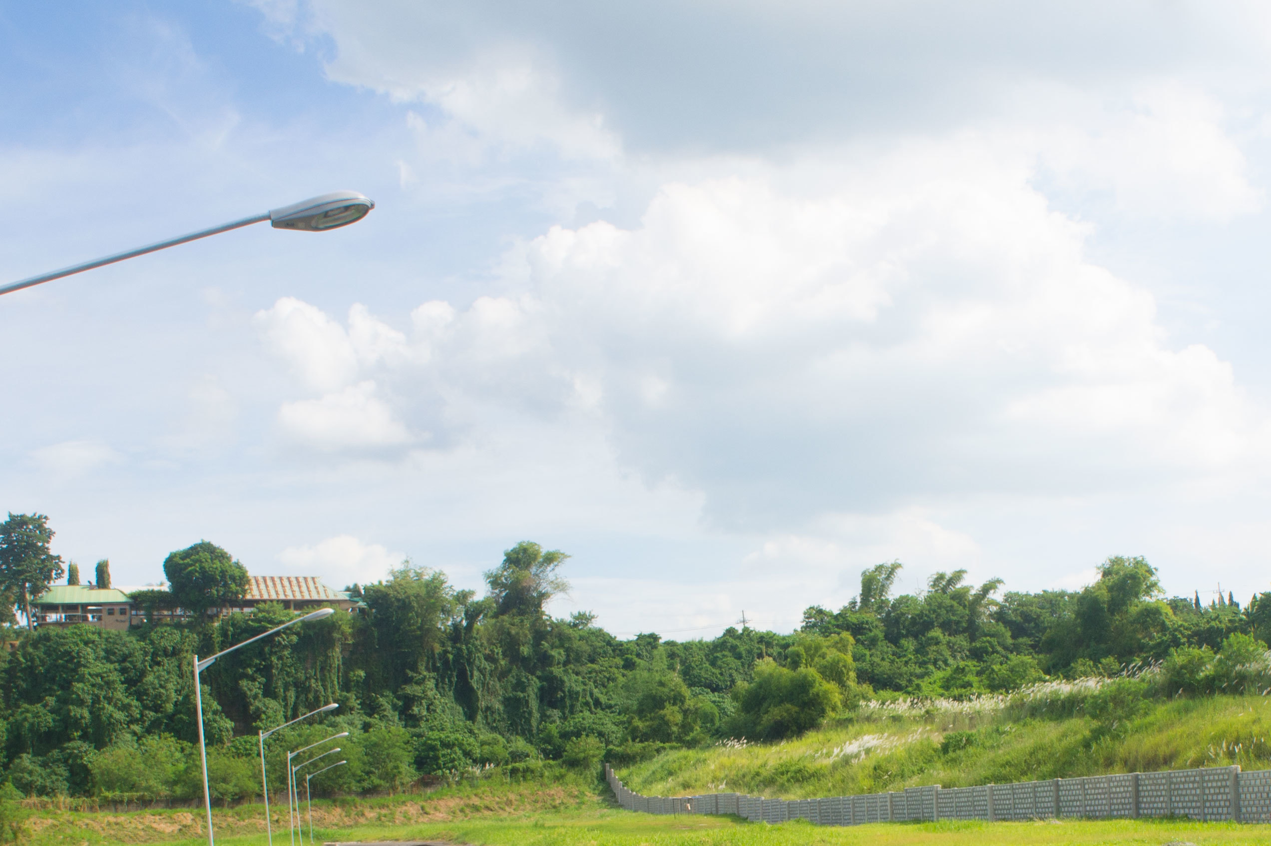 The West Valley Fault Line showing the lower and upper fault plain along Barangay Mabuhay, Carmona, Cavite